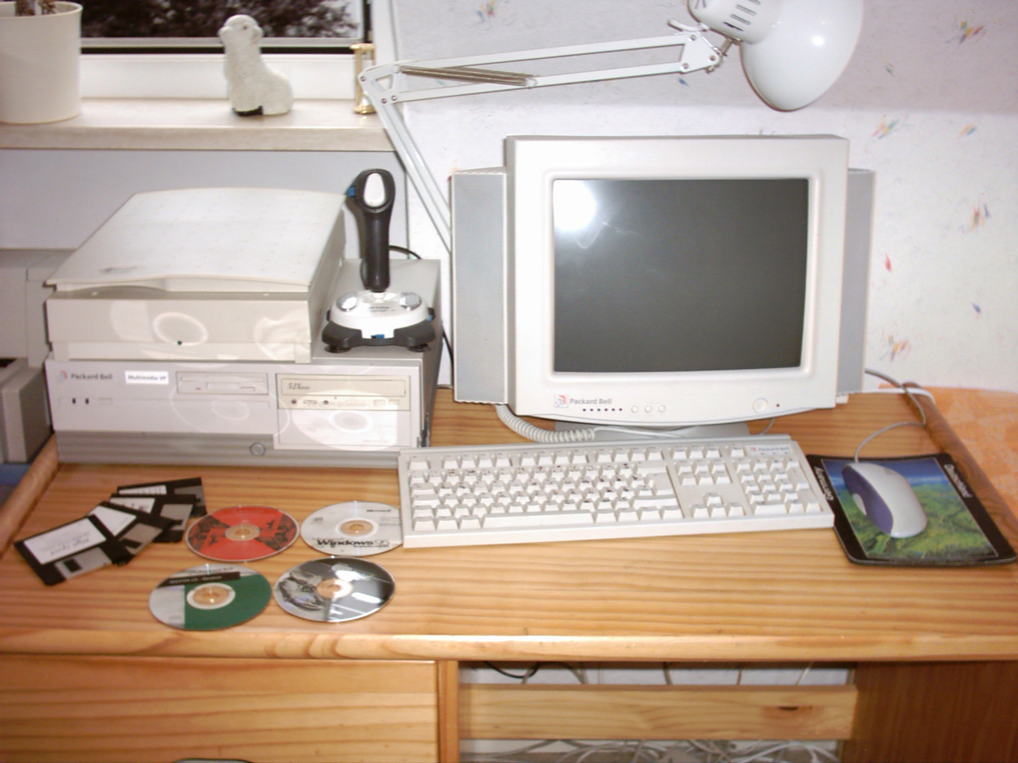 An old Packard Bell computer from the mid-90s.